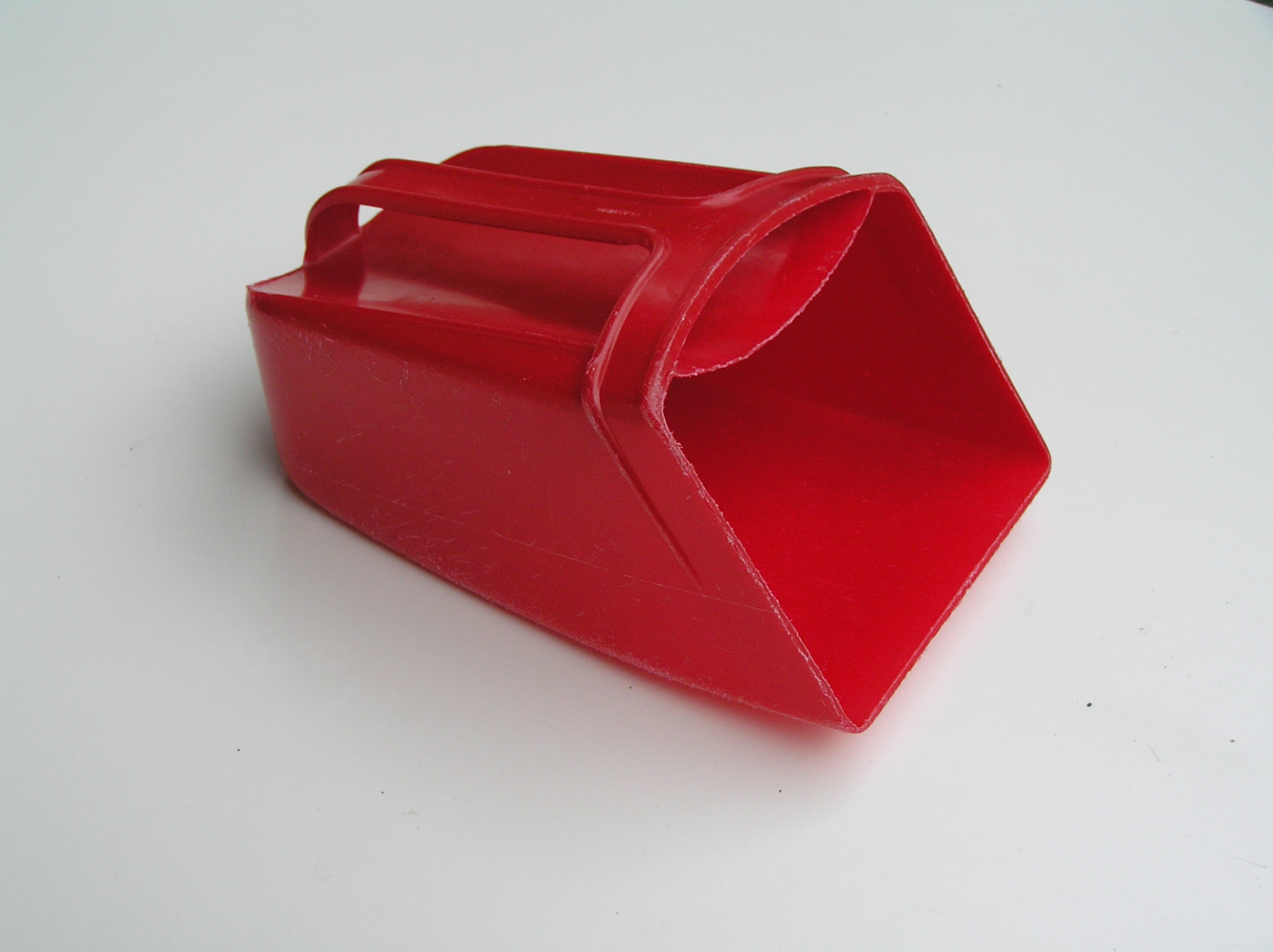 Hand bailer